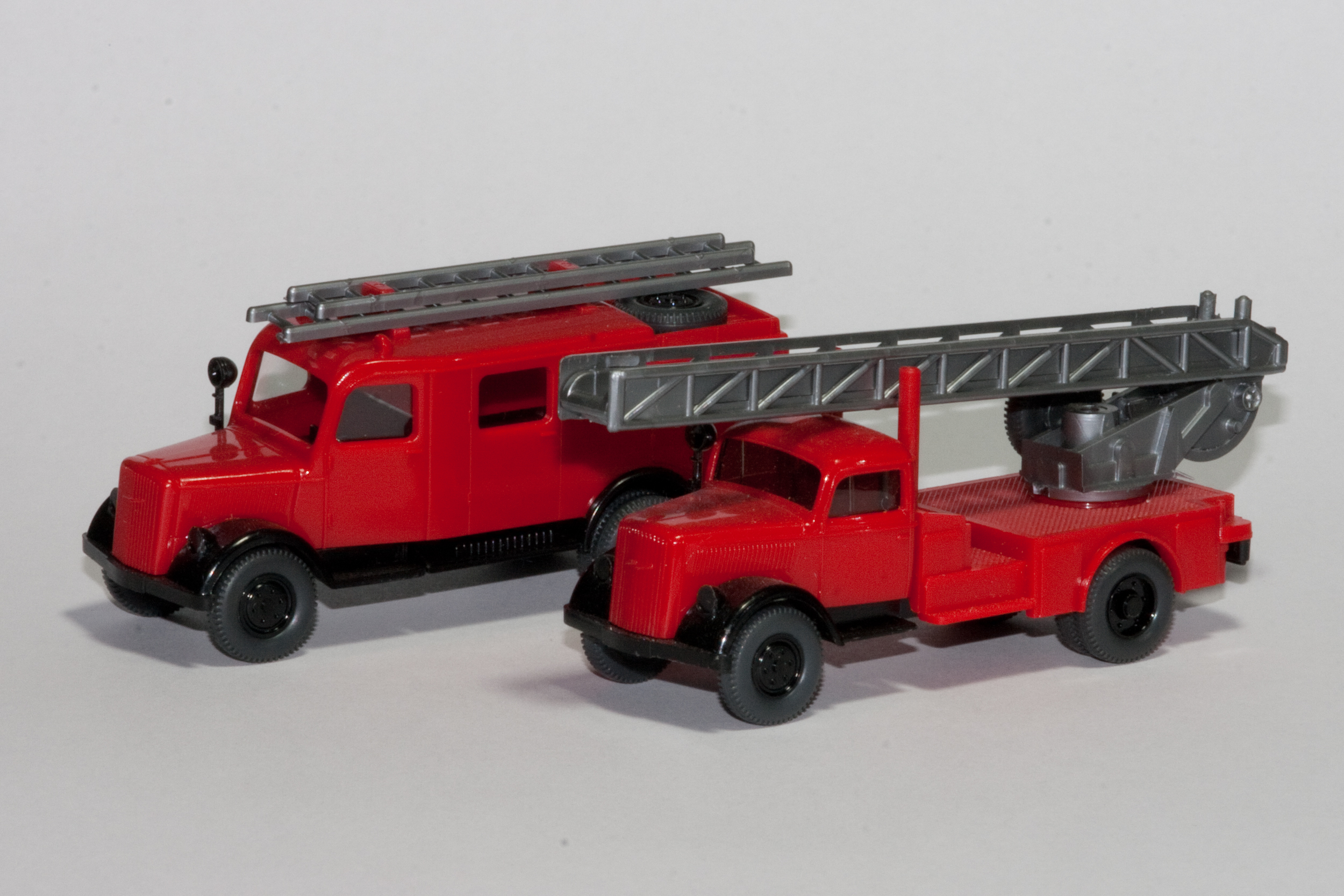 Model cars by Wiking (scale 1:87): Opel Blitz fire brigade